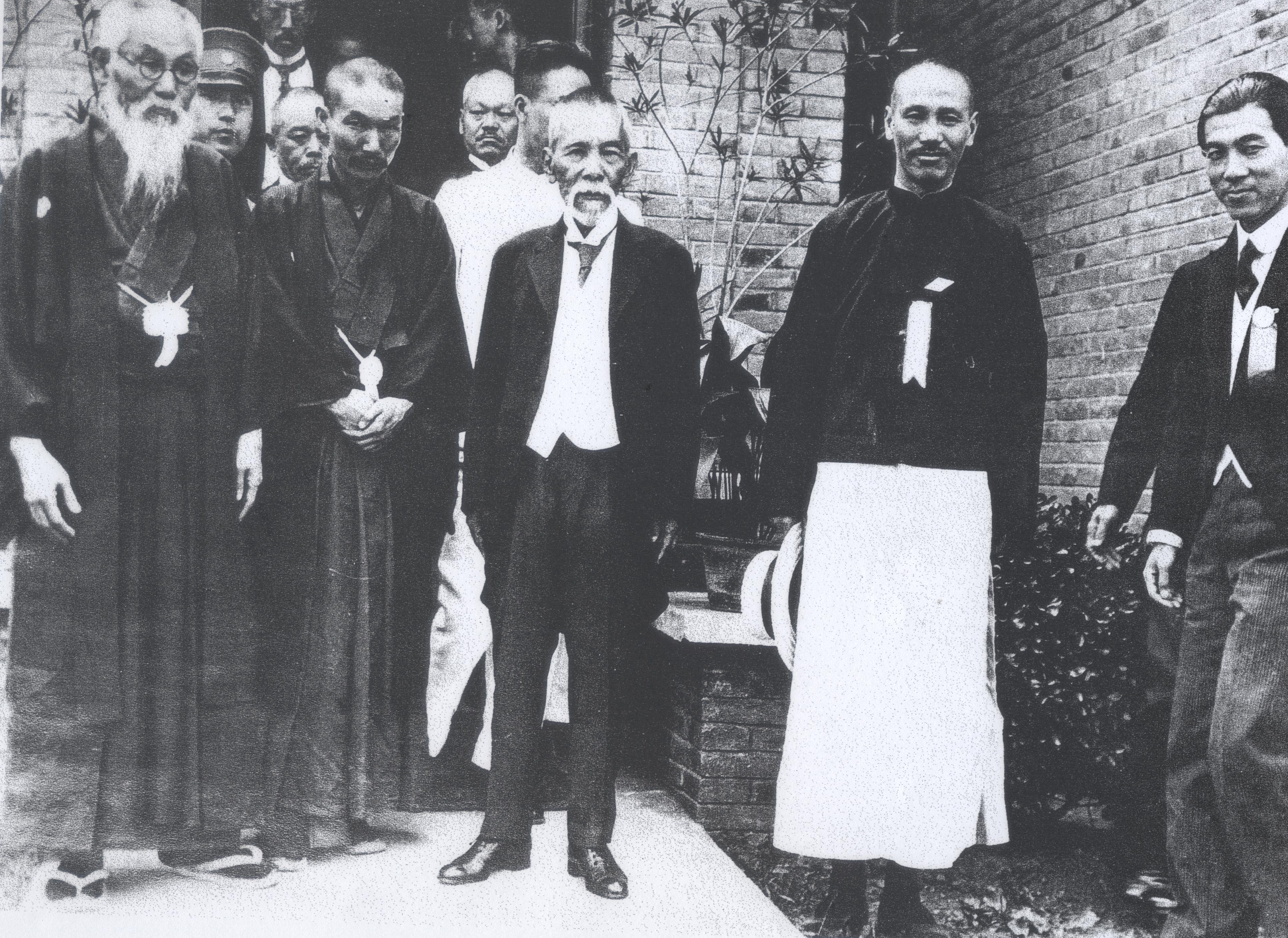 The future Chinese President Chiang Kai-shek (蒋介石, second from the right) pays visit to his Japanese friends, right-wing political leader Mitsuru Tōyama (頭山満, far left) and the future Prime Minister Tsuyoshi Inukai (犬養毅, center).